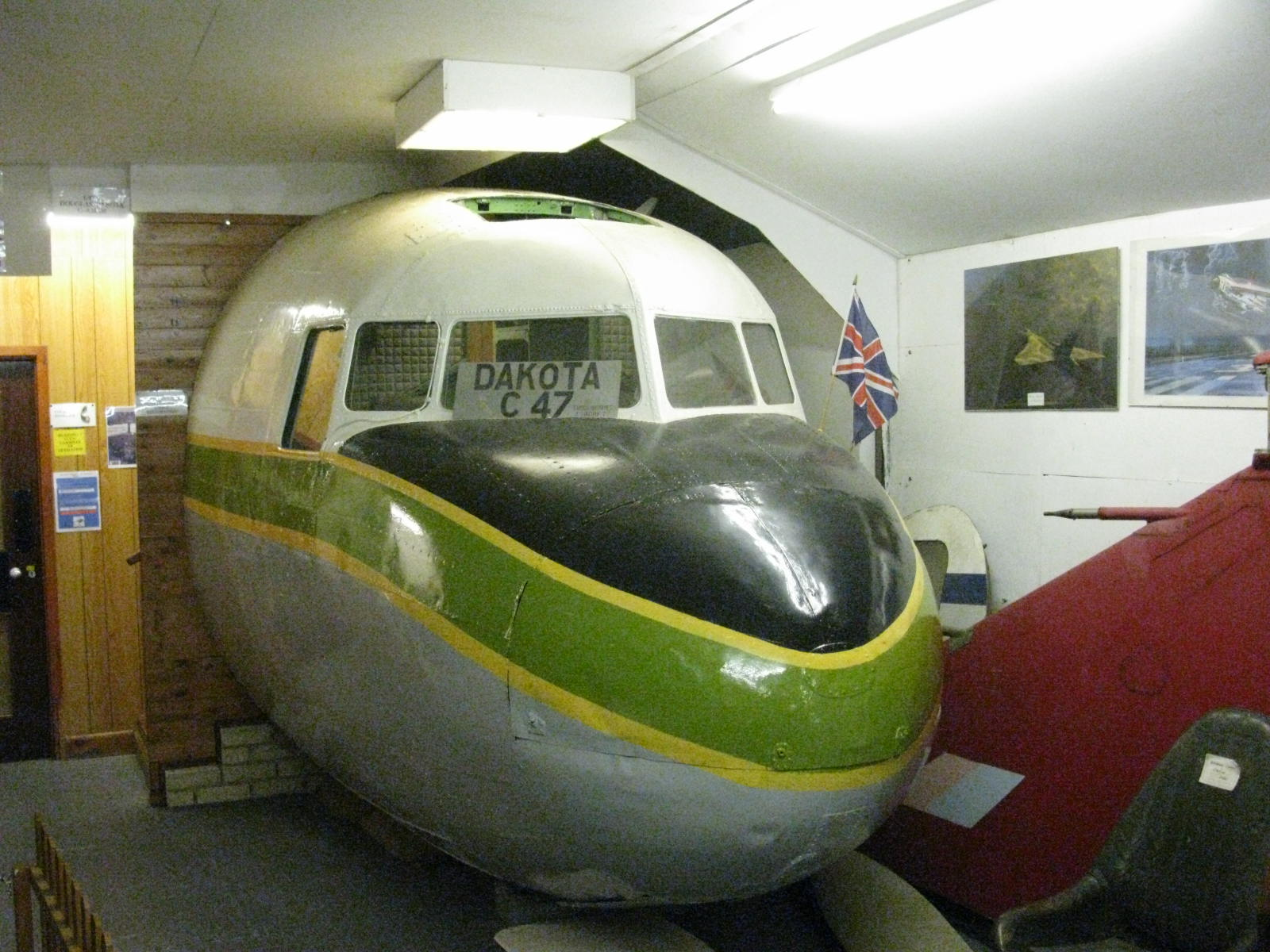 The preserved cockpit of Douglas Dakota G-AMSM at Brenzett Aeronautical Museum, Kent